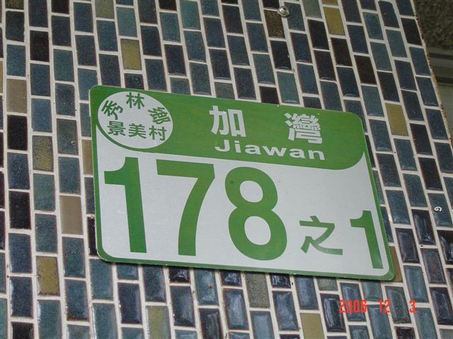 The address number plate of TRA Jingmei Station, Xiulin Township, Hualien County, Taiwan.